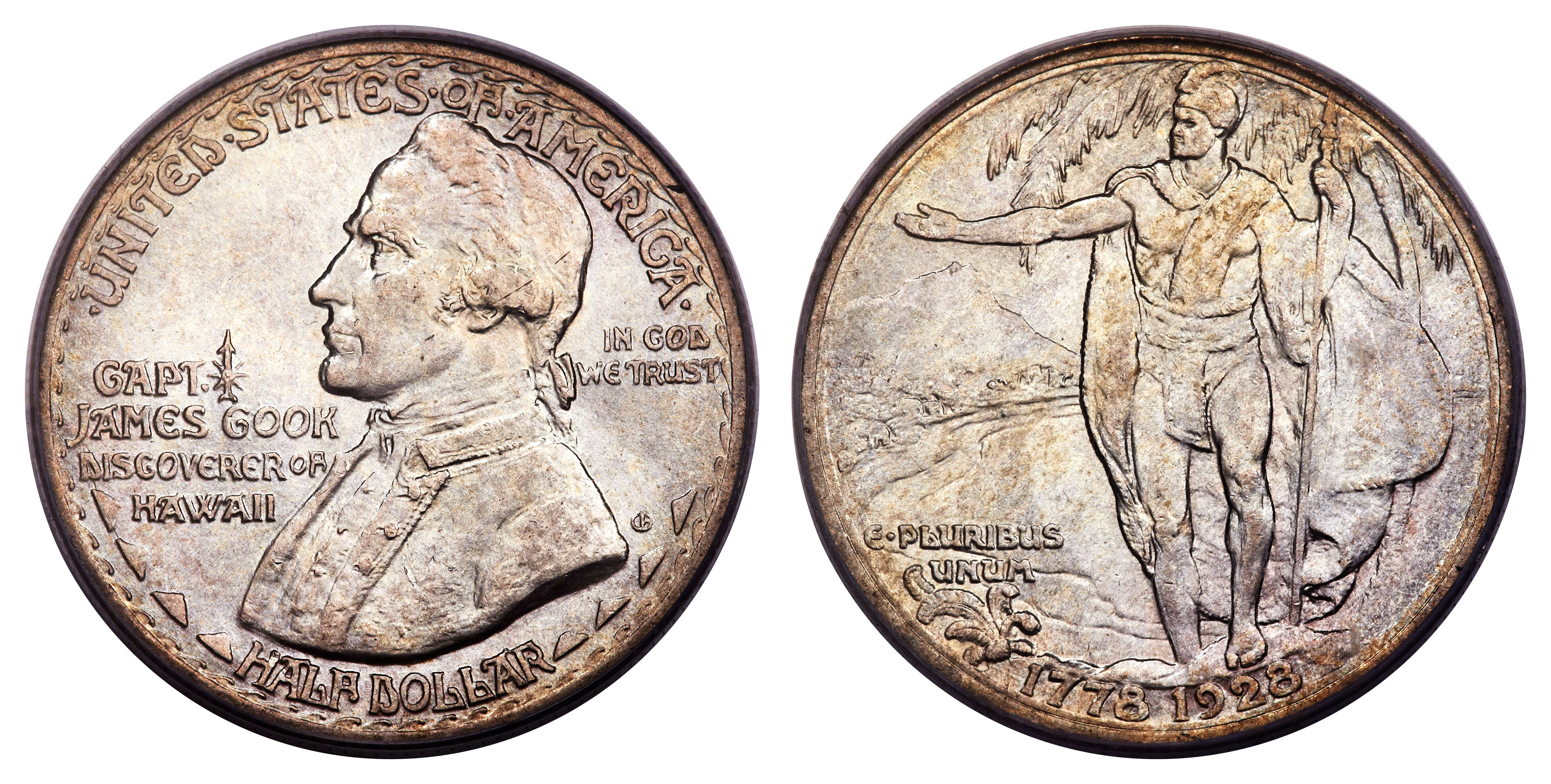 1928 50C Hawaiian(1216-6406)